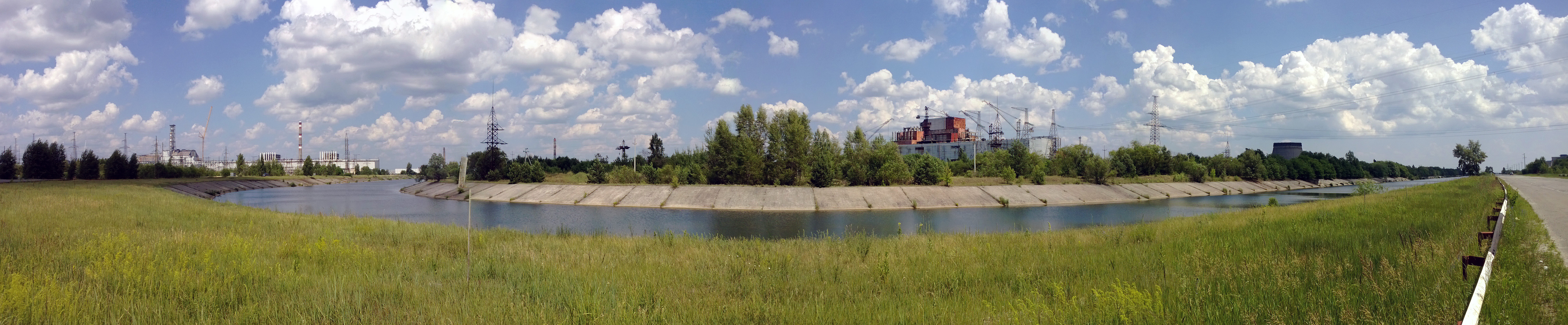 Chernobyl & Pripyat 2013